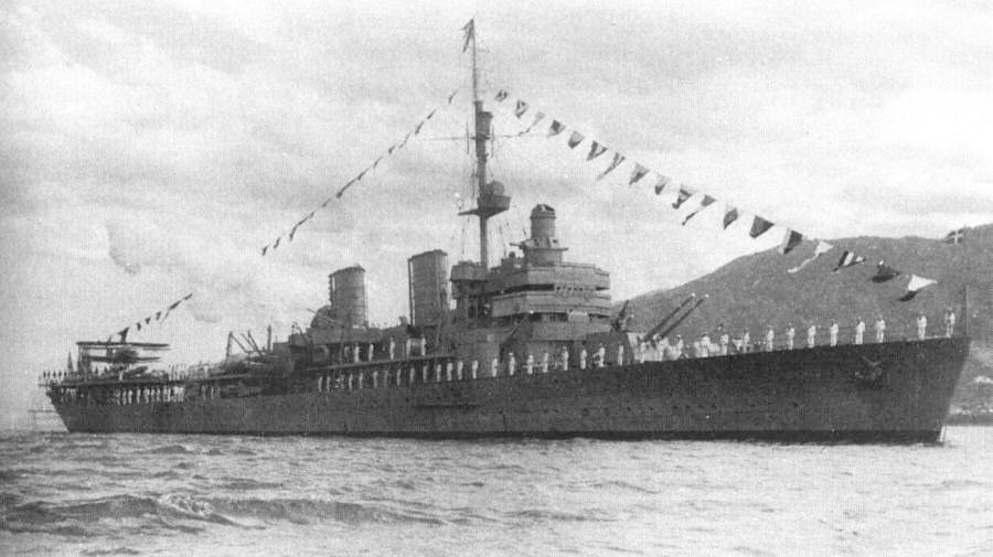 The Swedish airplane cruiser HMS Gotland in the Caribbean.